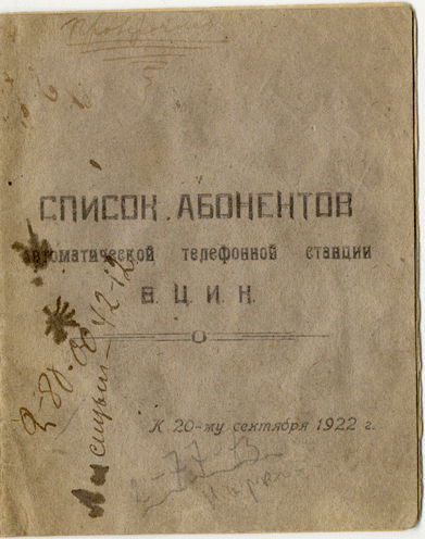 Kremlin telephone book cover, 1922. From Sadovsky's family archive.